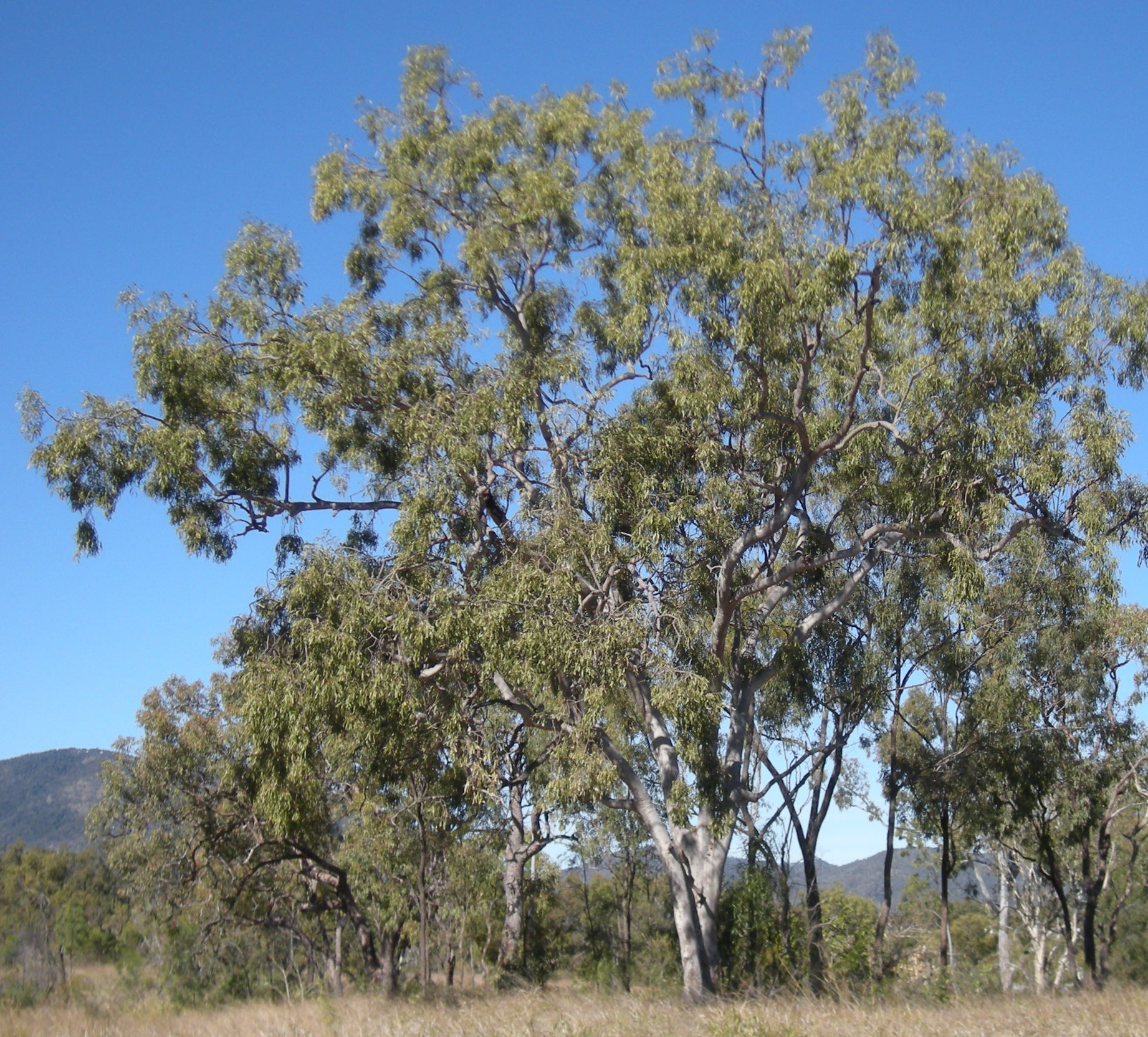 Corymbia dallachiana tree, coastal Central Queensland